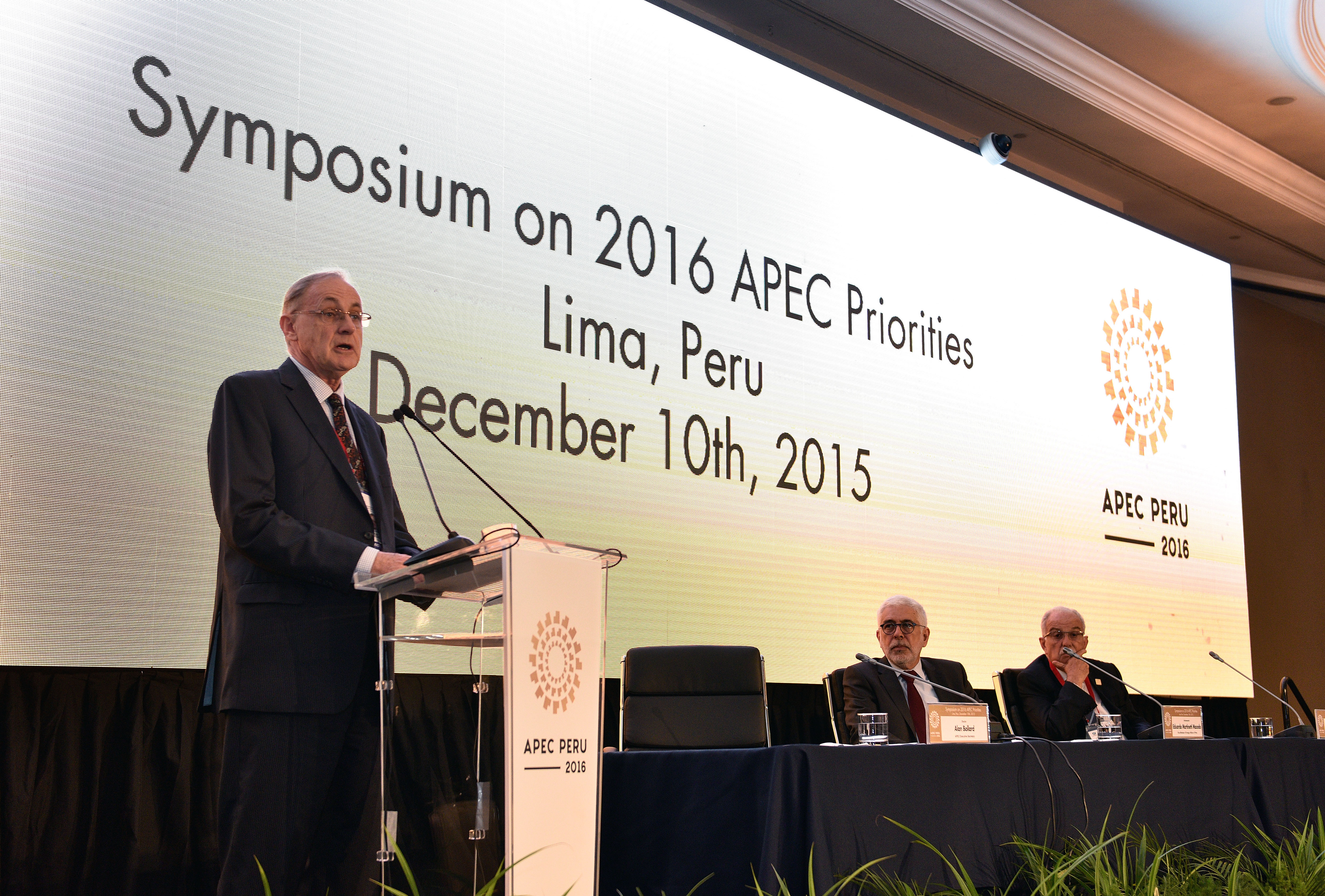 Deputy Foreign Minister Ambassador Eduardo Martinetti at the Symposium of APEC Priorities in Lima.